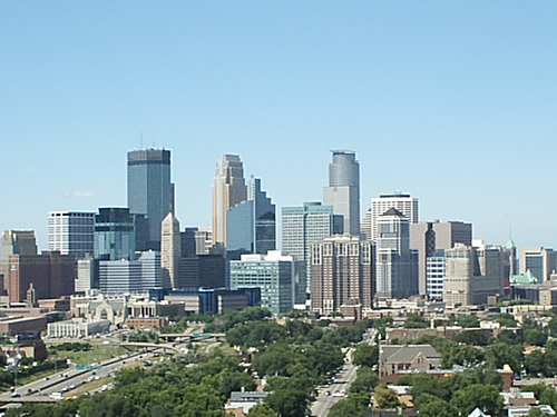 Skyline of Minneapolis, Minnesota (USA).